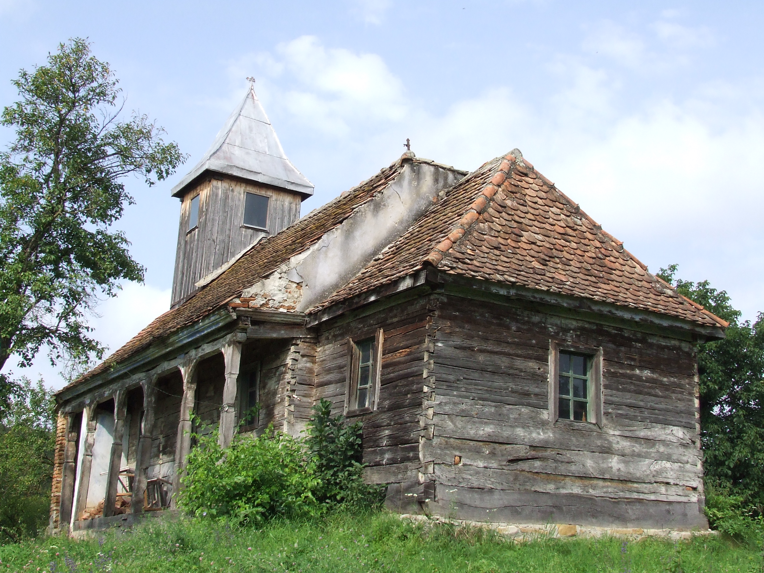 wooden orthodox church in Ilimbav, Romania